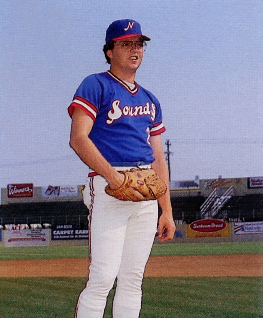 Pitcher Paul Gibson of the 1986 Nashville Sounds Minor League Baseball team of the American Association